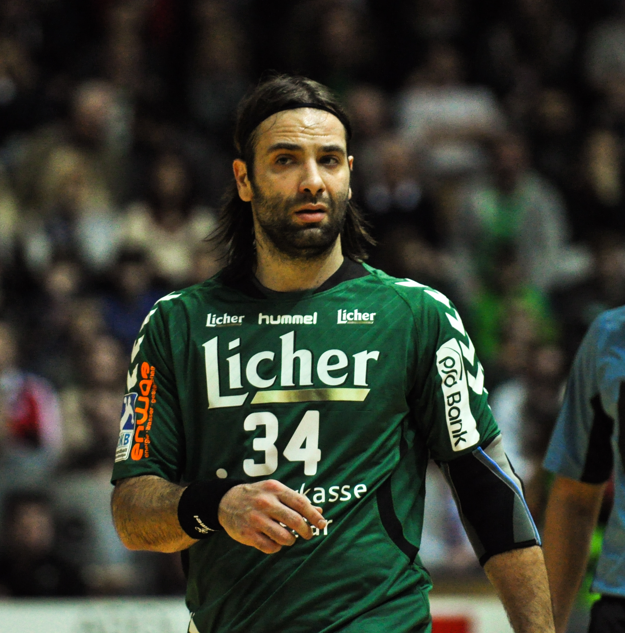 taken on February 8, 2014 during DKB Handball-Bundesliga match between HSG Wetzlar and HSV Hamburg